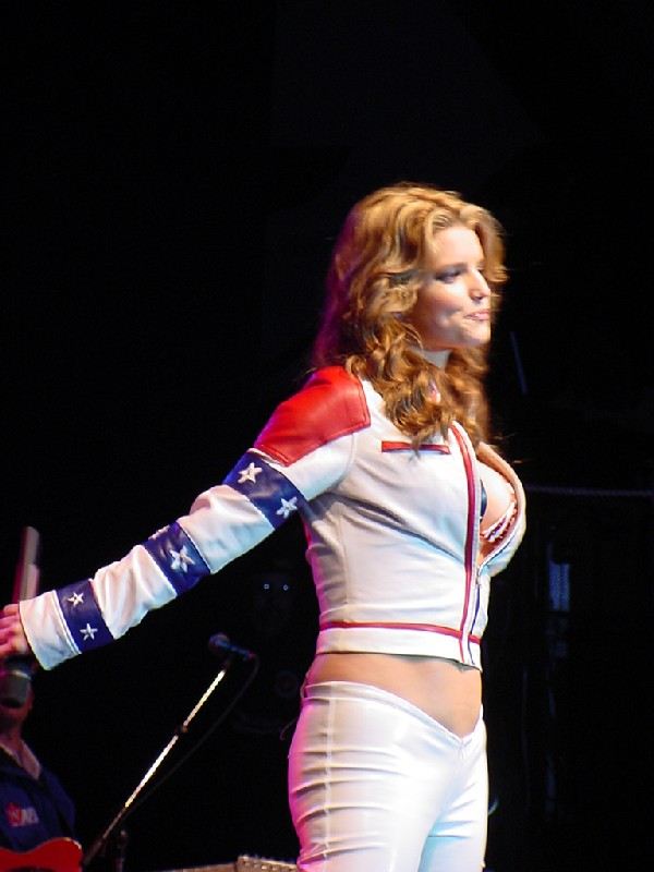 Picture of Jessica Simpson taken during a USO/DoD Celebrity Tour at Eagle Base 14 November 2001.